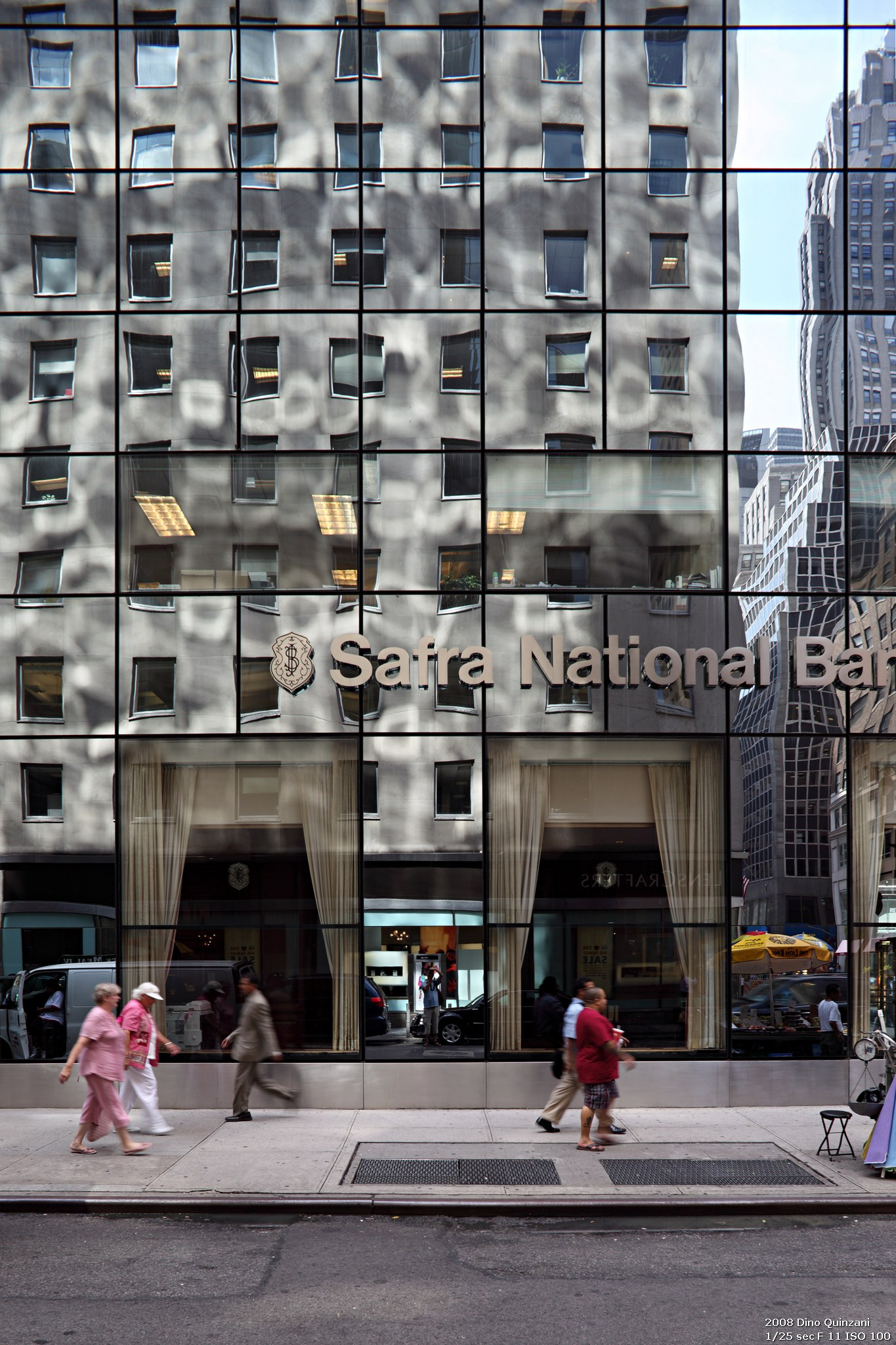 Canon 5D MK II + TS-E 24 1/25s f/11 100ISO hand held :-)